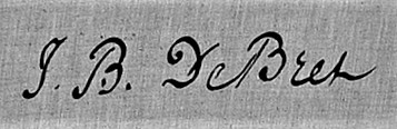 Signature of Jean-Baptiste Debret